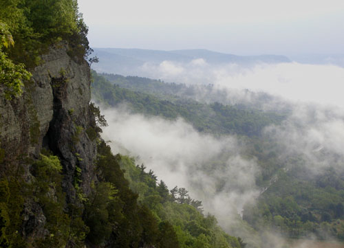 View from the cliffs above the Delaware River in the Delaware Water Gap. Photo taken by Michael Parker - original source.